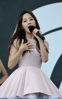 Park Boram on acrofan (cropped from original)